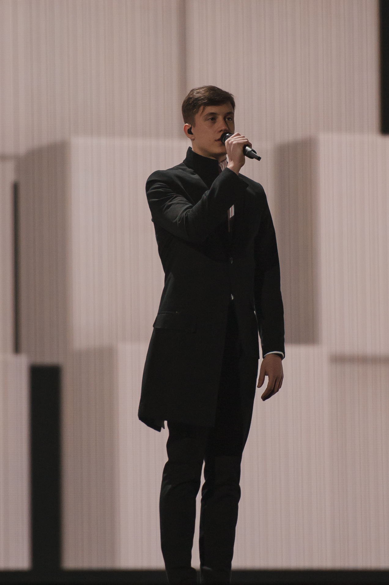 Eurovision Song Contest Vienna 2015: Loïc Nottet